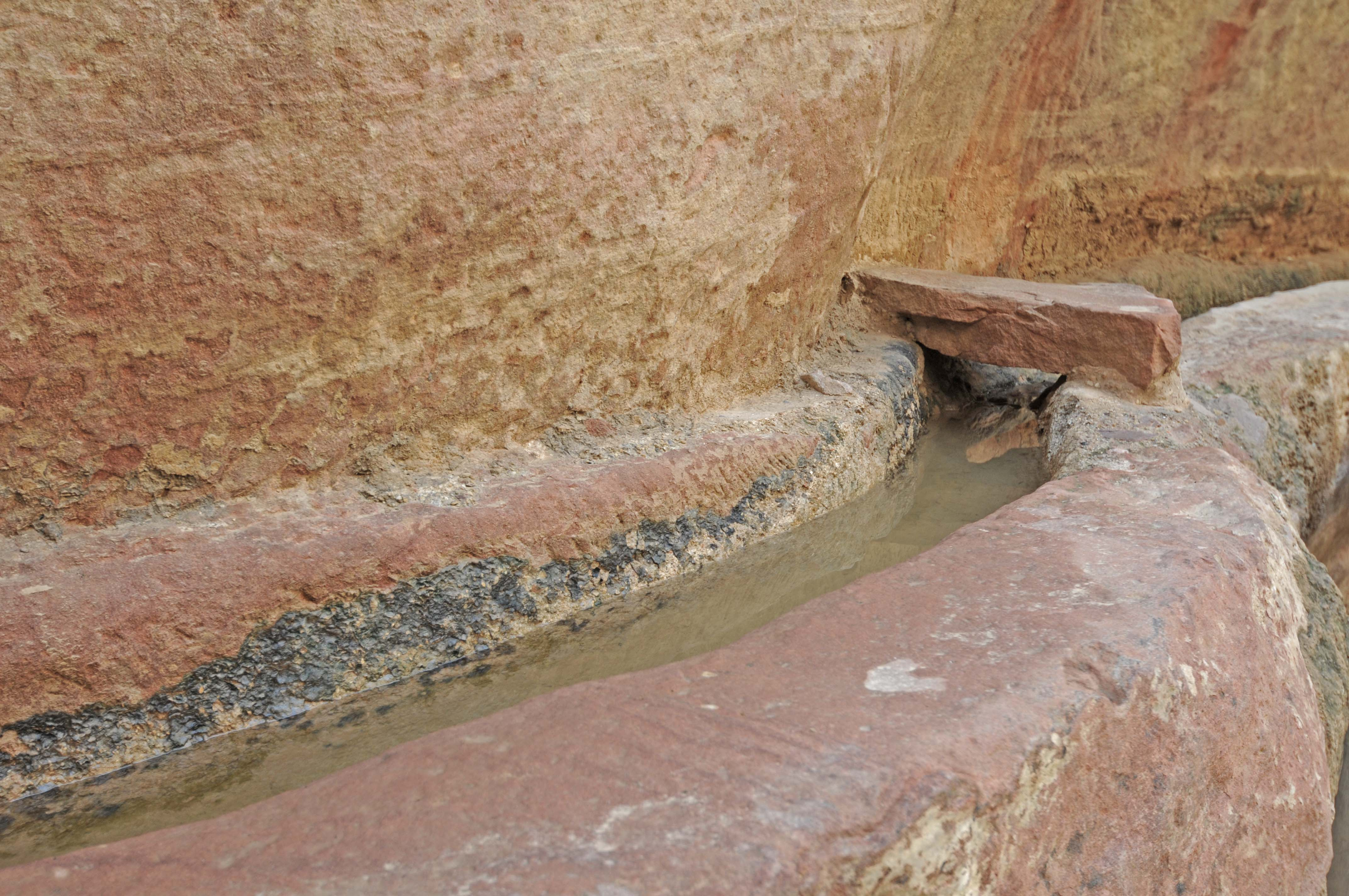 Petra. Canal with ancient stone cover.